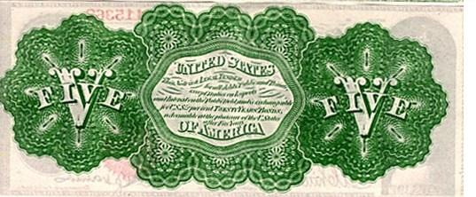 Image of the Greenback bill issued by the US during the Civil War